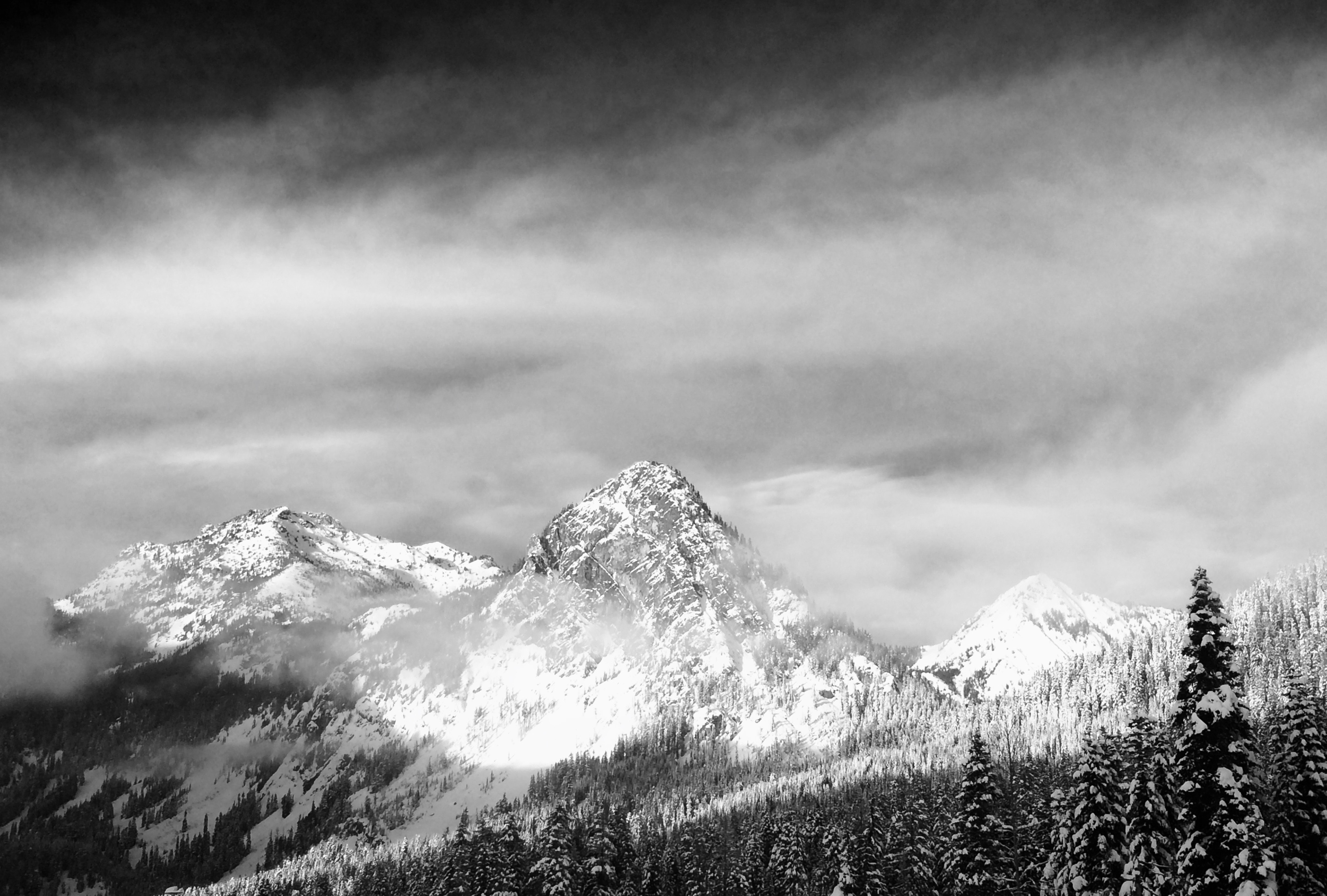 Facing West